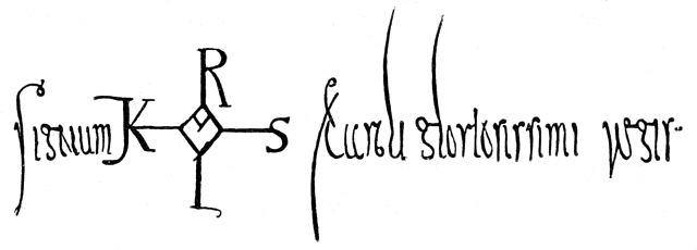 Monogram of Charlemagne, from the subscription of a royal diploma